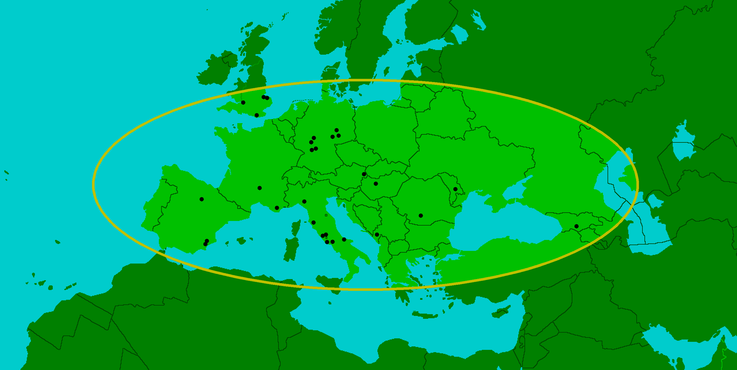 Distribution of Stephanorhinus hundsheimensis In the Lower and Middle Pleistocene